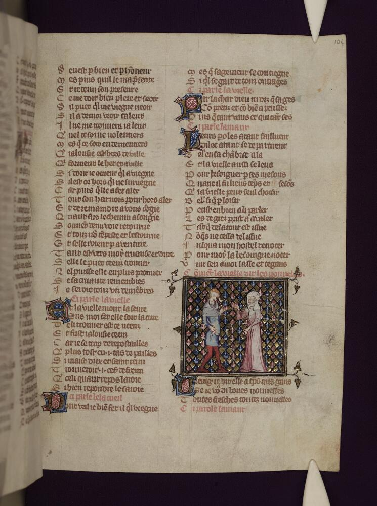 Guillaume de Lorris and Jean de Meung, Le Roman de la Rose, in an illustrated copy dated in a half-erased inscription at fol. 153v, Paris 1348.; 104r